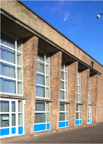 The main assembly hall of Carlton le Willows Academy, Nottinghamshire.